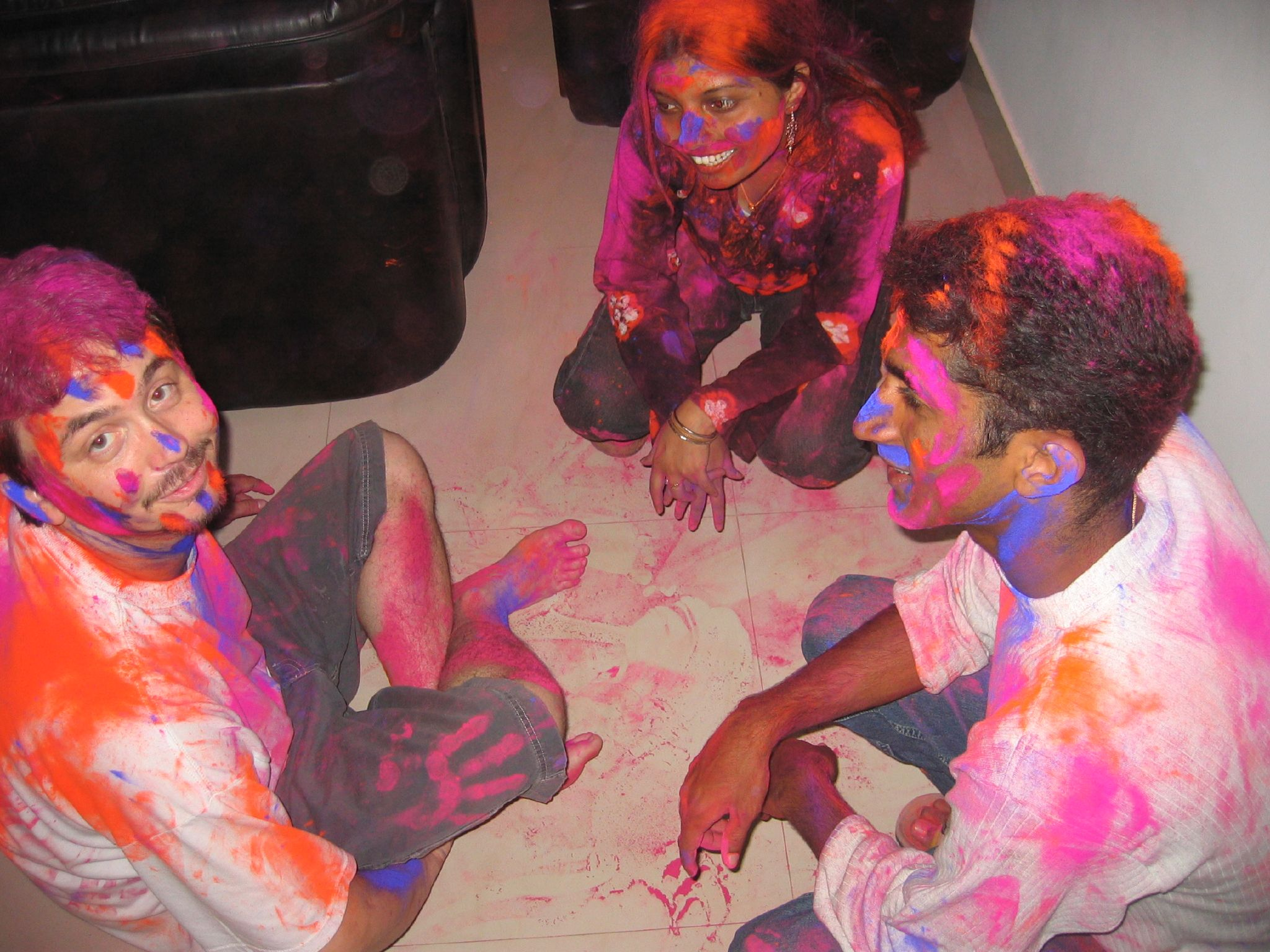 Colourful people after Holi celebration.